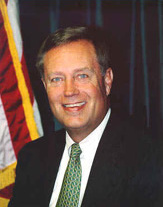 Rep Mike Oxley of Ohio